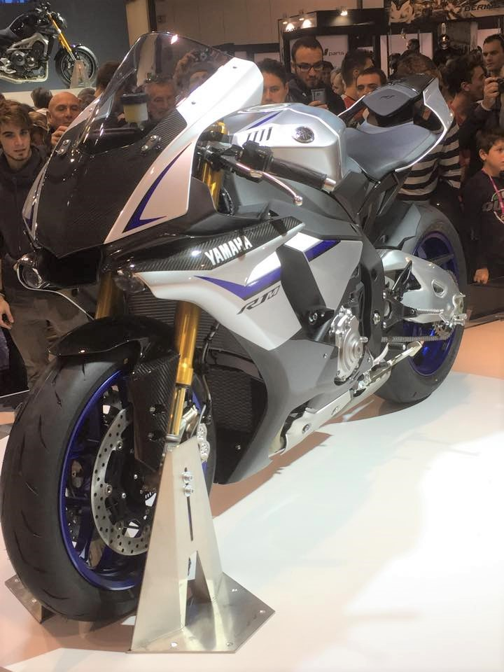 Yamaha YZF-R1M year 2015.